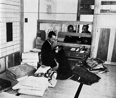 Public Pawn Shop circa 1960